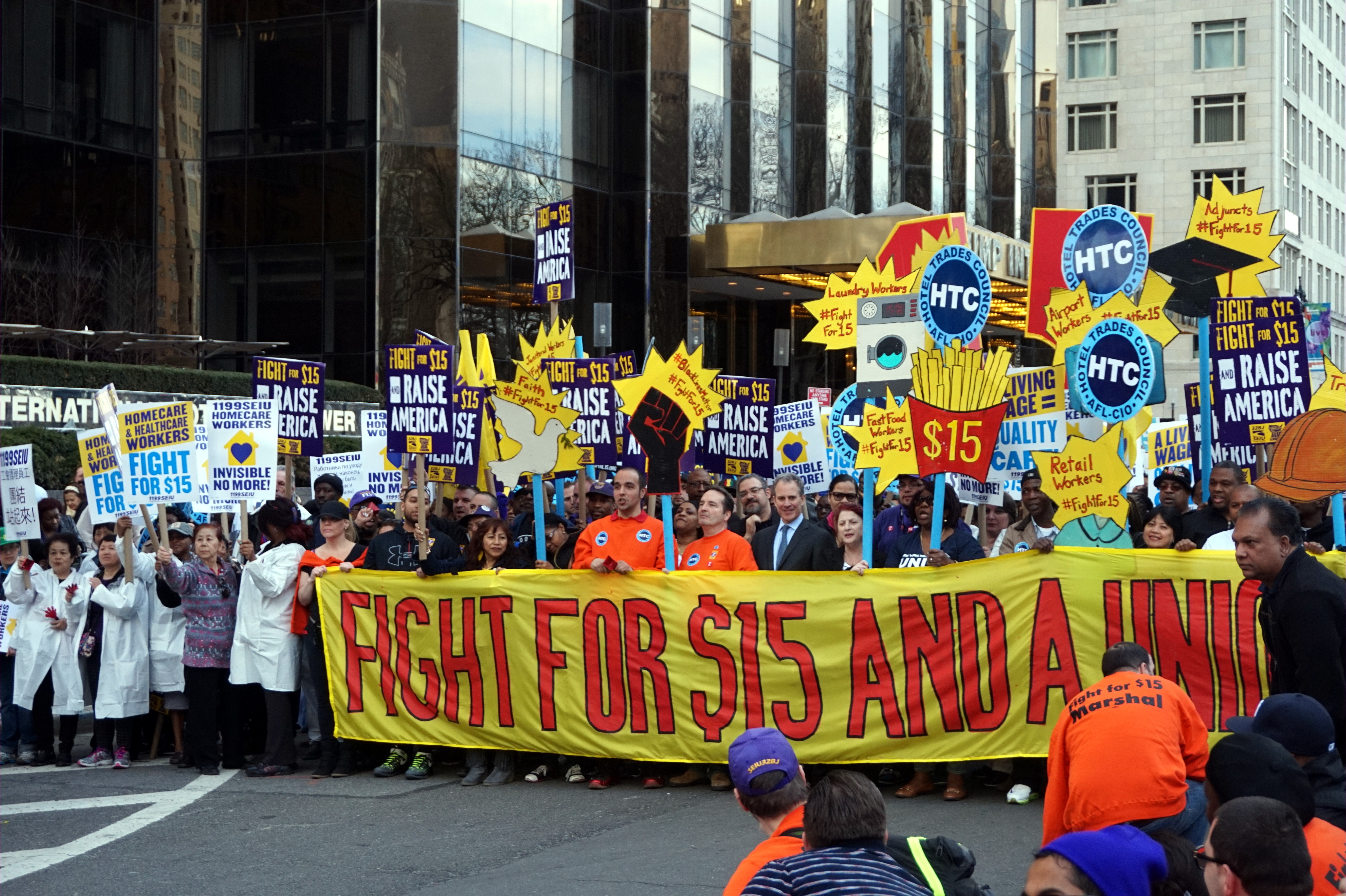 NYC Rally and March to raise the minimum wage in America.